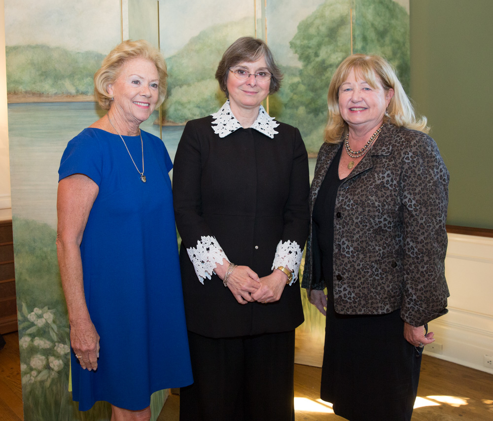 Former Pennsylvania First Lady Midge Rendell, First Lady Frances Wolf, and former Pennsylvania First Lady Michelle Ridge attend the 2017 Distinguished Daughters awards ceremony at the Pennsylvania Governor's Residence on October 4, 2017.